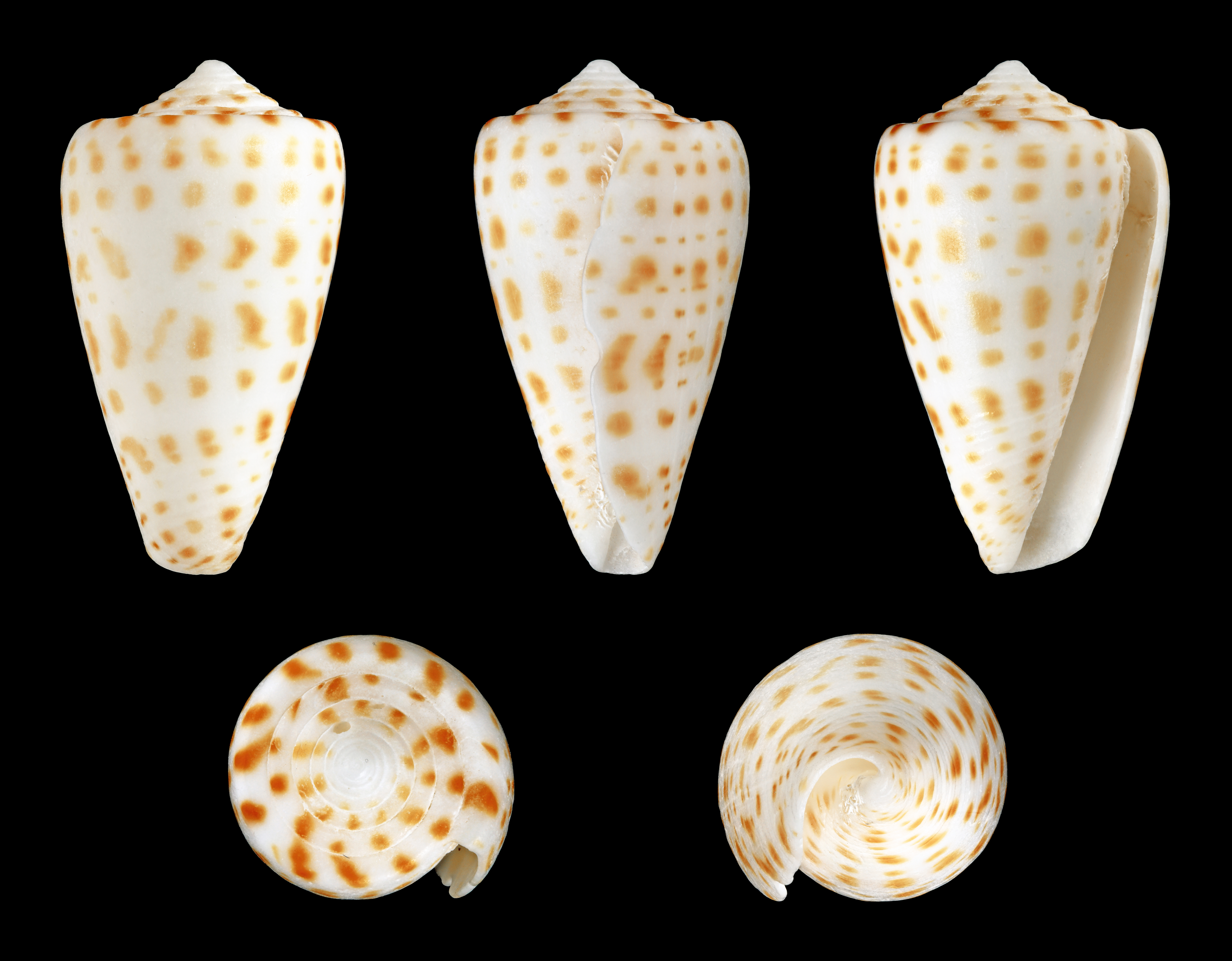 Conus spurius Gmelin, 1791, Alphabet Cone; Length 3.0 cm; Originating from Florida, USA; Shell of own collection, therefore not geocoded. Dorsal, lateral (right side), ventral, back, and front view.